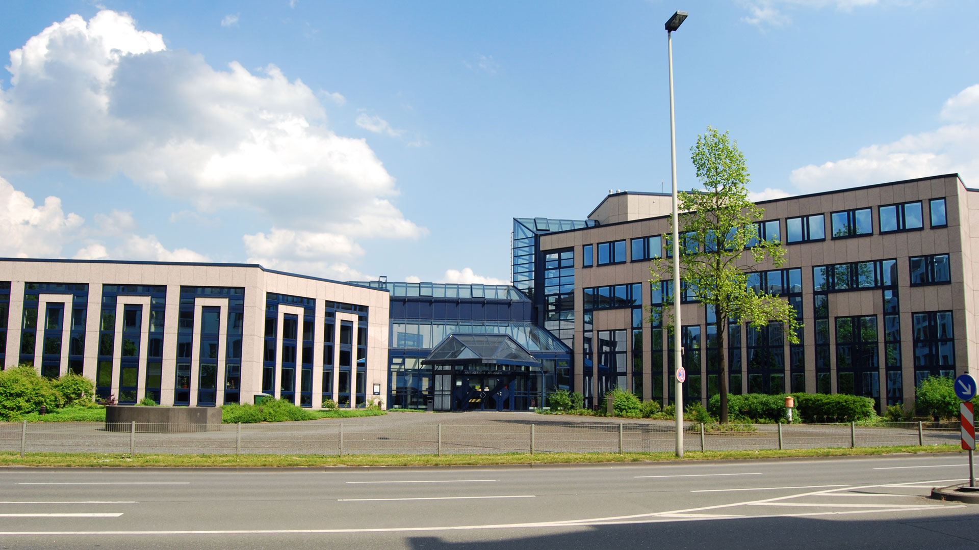 Solingen, municipal court